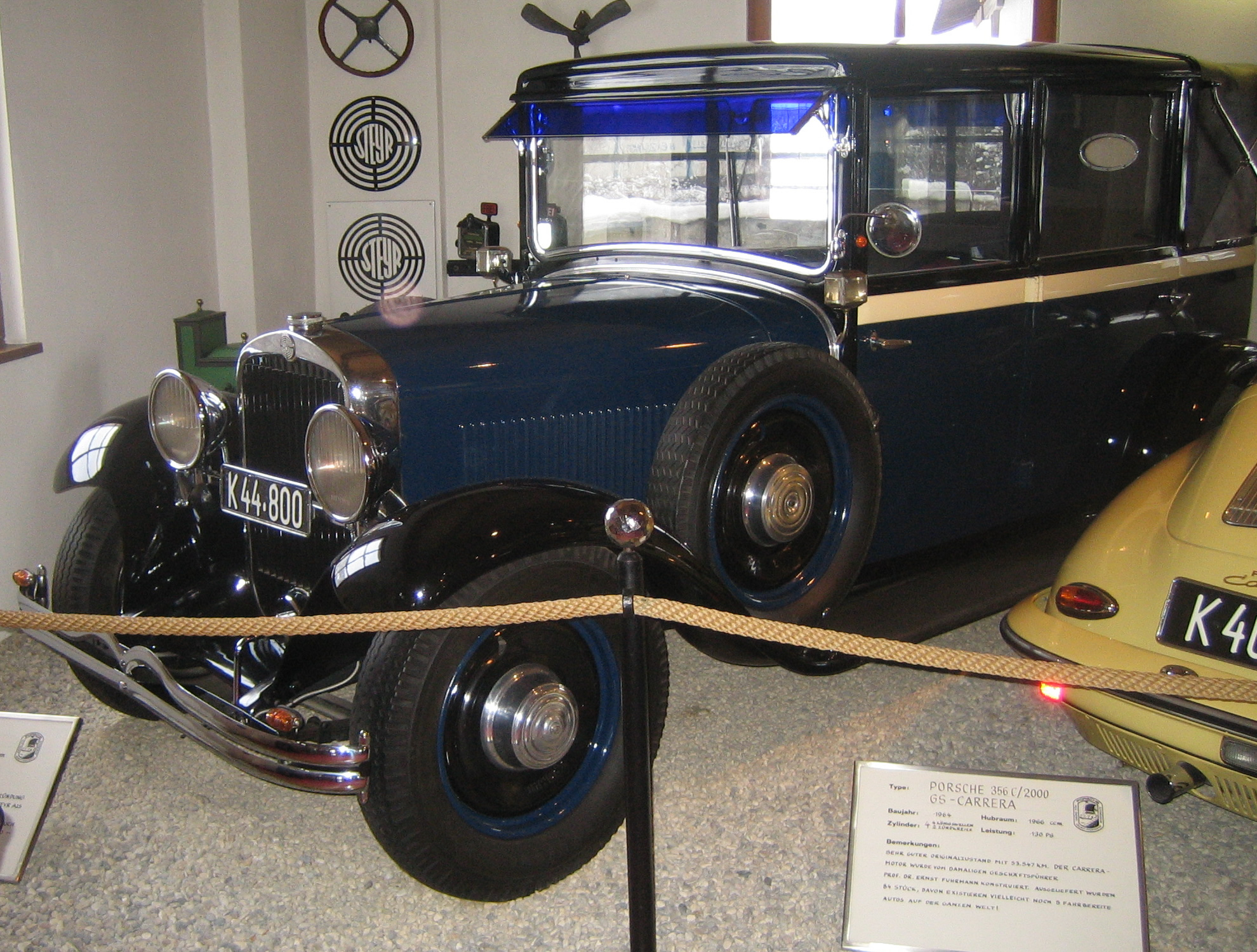 Steyr 30, Type 45 Taxi, 1932 6 cylinders, 2048 ccm, 40 PS Construction: Ferdinand Porsche in 1930 for Steyr Werke AG Manunfactured: 666 vehicles between 1932 and 1933